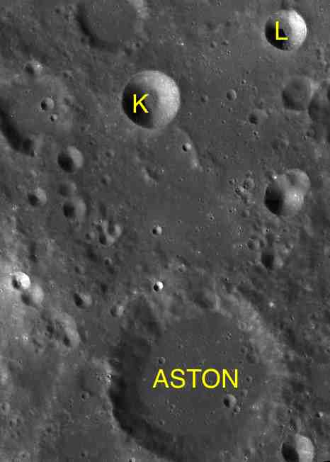 Part of the chart LAC-36 used for the presentation